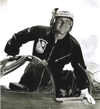 Captain Roy M. "Butch" Voris poses in the cockpit of an F9F Panther during his second tour with the Blue Angels. This image is the work of an employee of the United States Navy made during the course of his/her duties and can be found at and elsewhere.